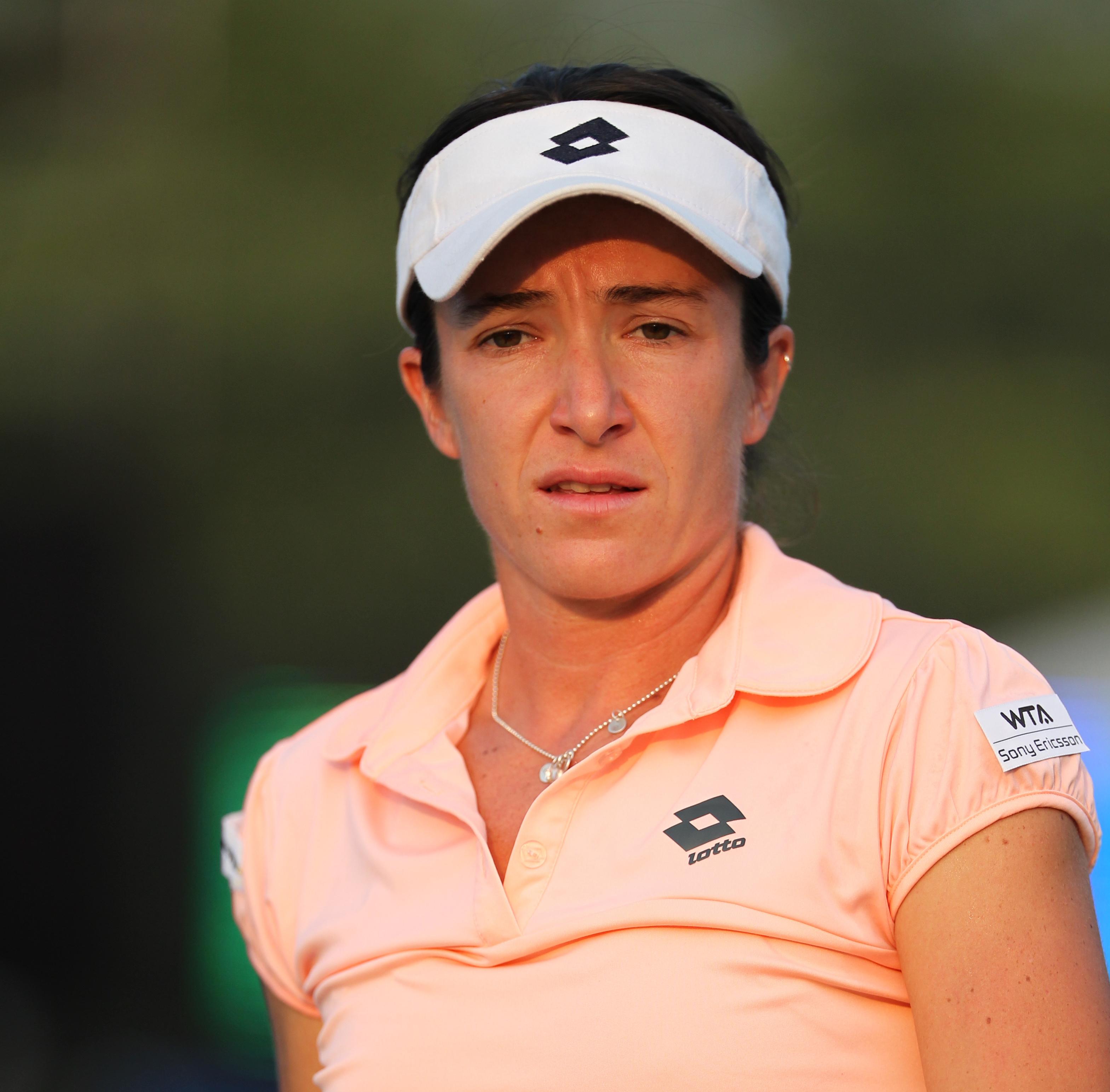 Citi Open Tennis July 29, 2011